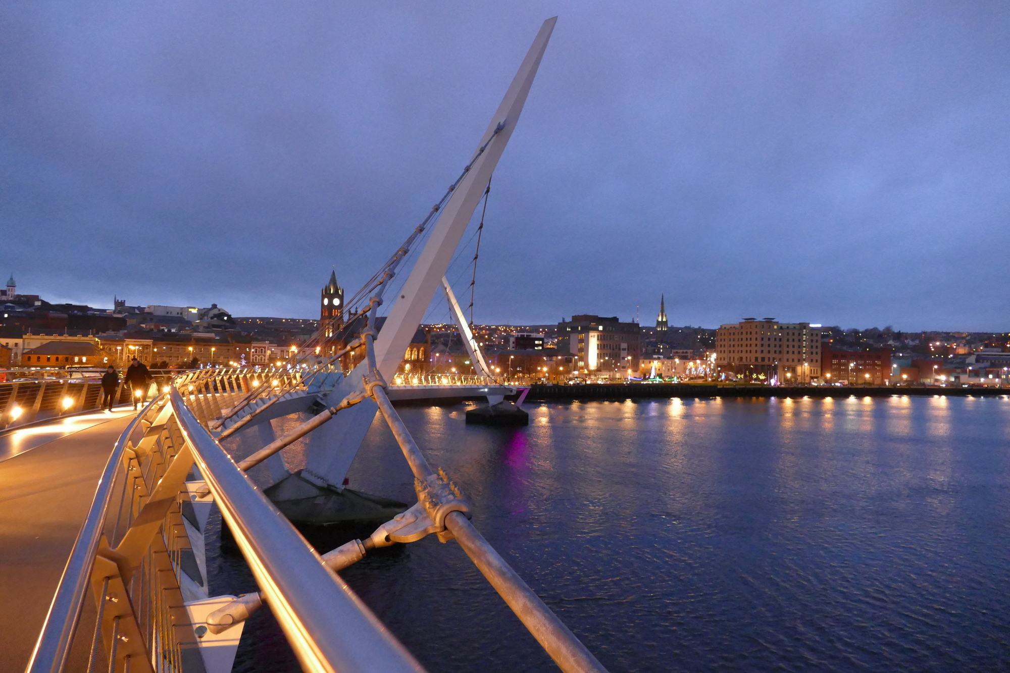 Foyle Bridge Derry at Dusk 23rd Dec 2017